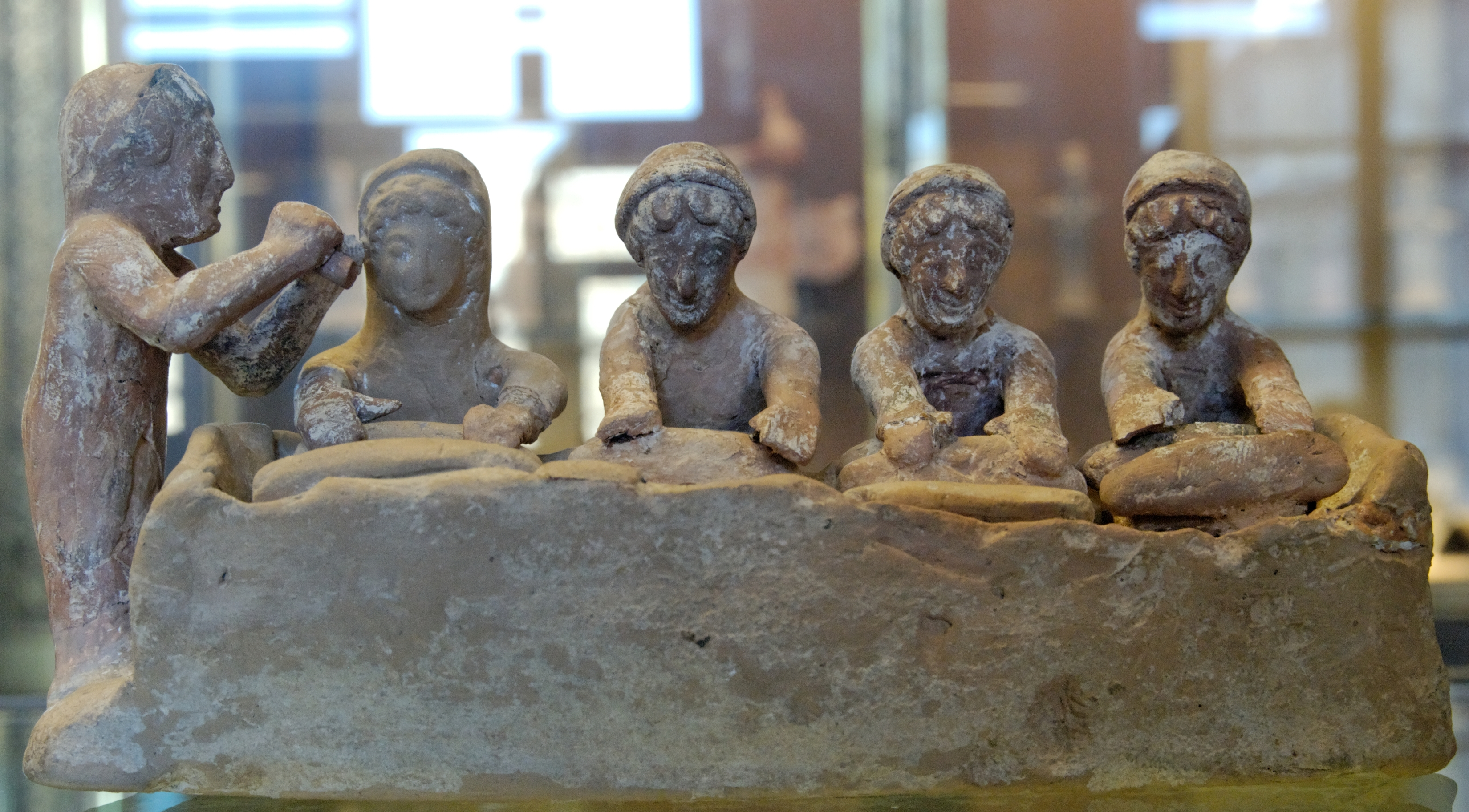 Female workers kneading dough; a flute player sets the work pace. Boeotian terracotta figurine, 525–475 BC. From Thebes.